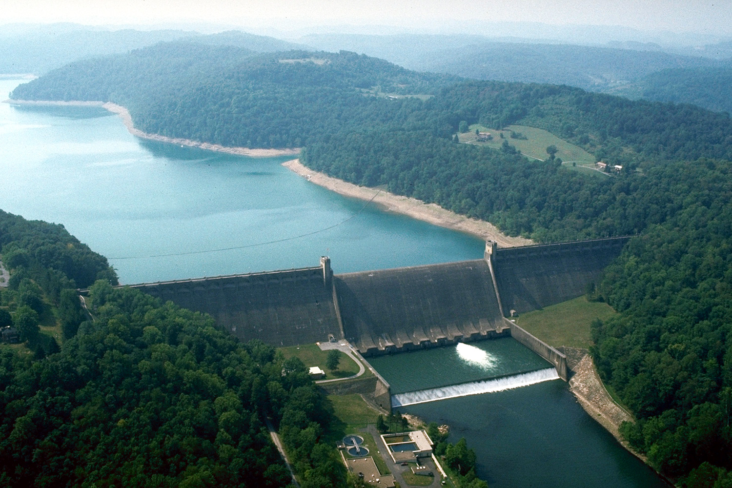 Tygart Lake and Dam on the Tygart River near the town of Grafton in Taylor County, West Virginia, USA. The U.S. Army Corps of Engineers constructed the dam on the Tygart River for flood control on the river. View is upriver to the south.